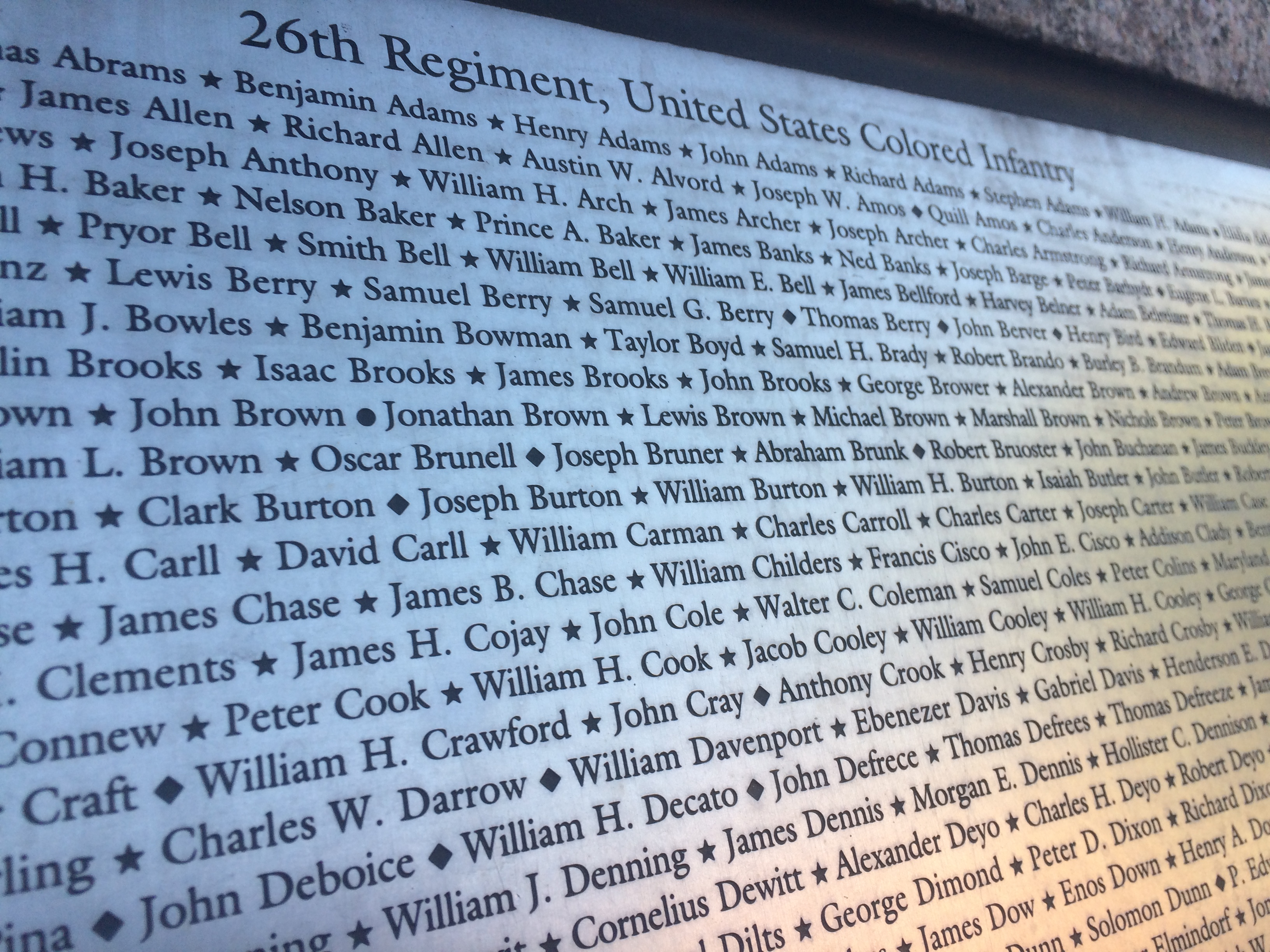 Names list from the African American Civil War Memorial in Washington, DC; profile of 26th Regiment, USCI; noting James B. Chase